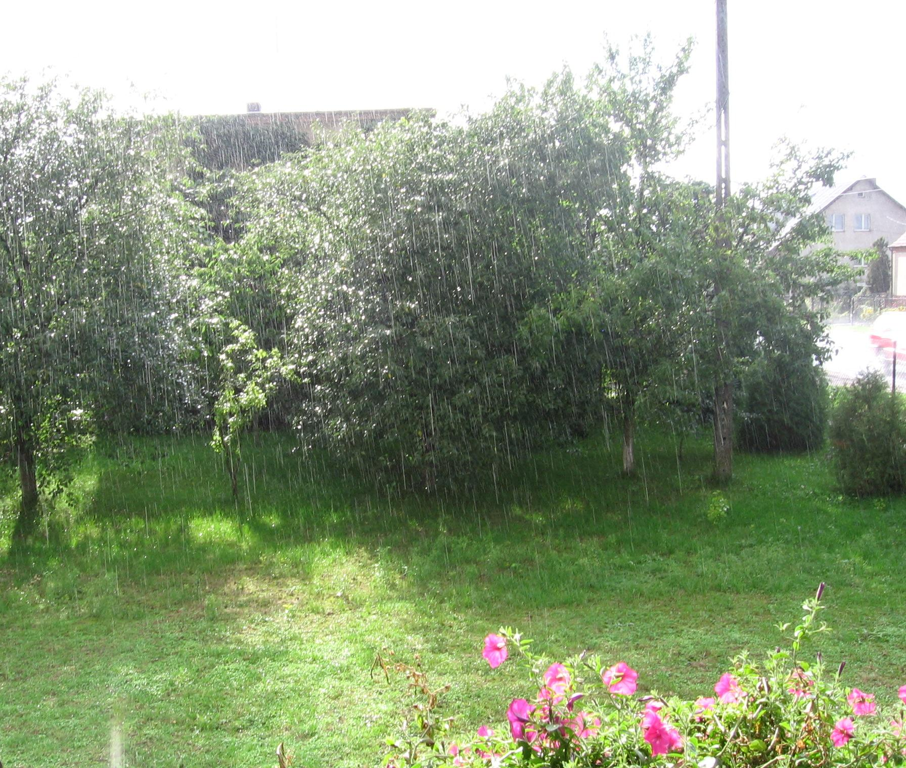 Typical garden at Padniewko's house.